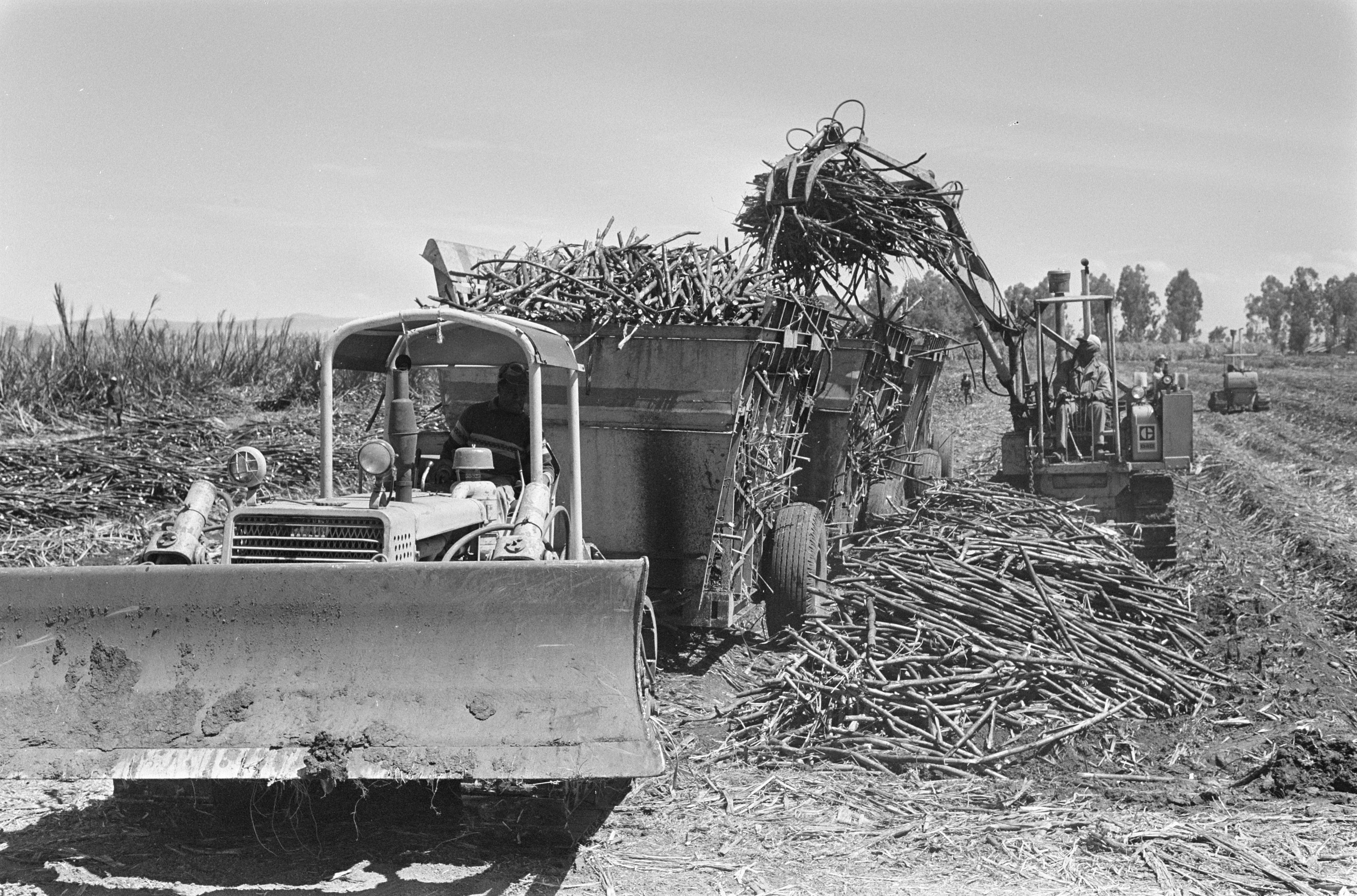 Sugar cane plant (HVA) in Ethiopia, 27 January 1969